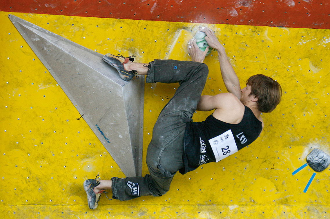 Vilimantas Petrasiunas during qualifications at the IFSC Boulder Worldcup Vienna 2010.